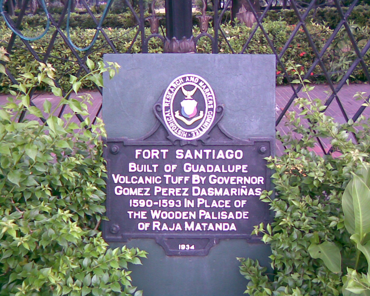 The Historical Marker of Fort Santiago by Historical Research and Markers Committee.